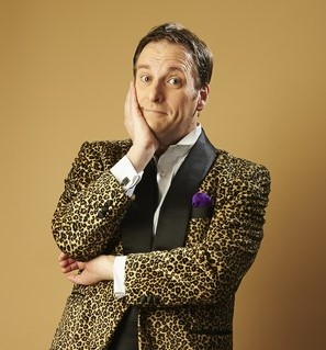 Photo of magician Steve Marshall